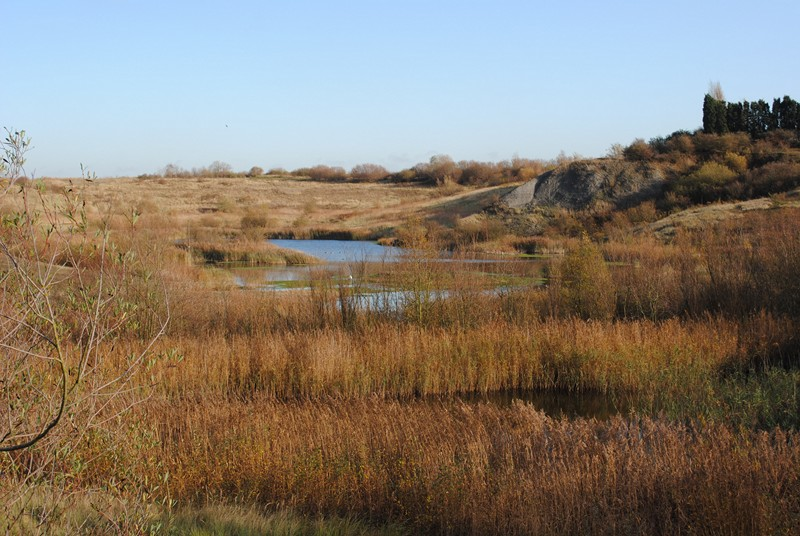 Kings Dyke Nature Reserve near Whittlesey, UK, looking east